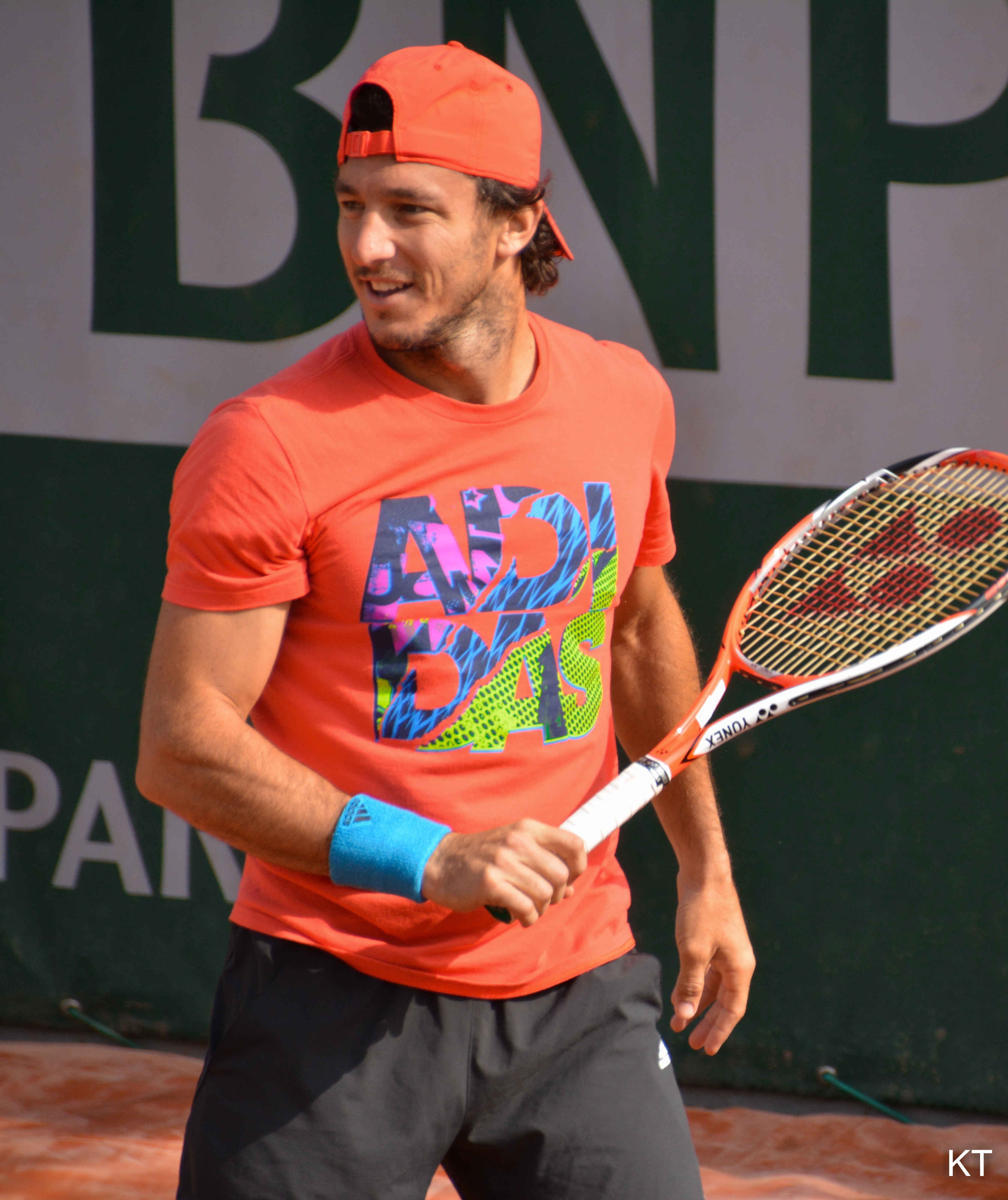 Day 4 of Roland Garros 2015.